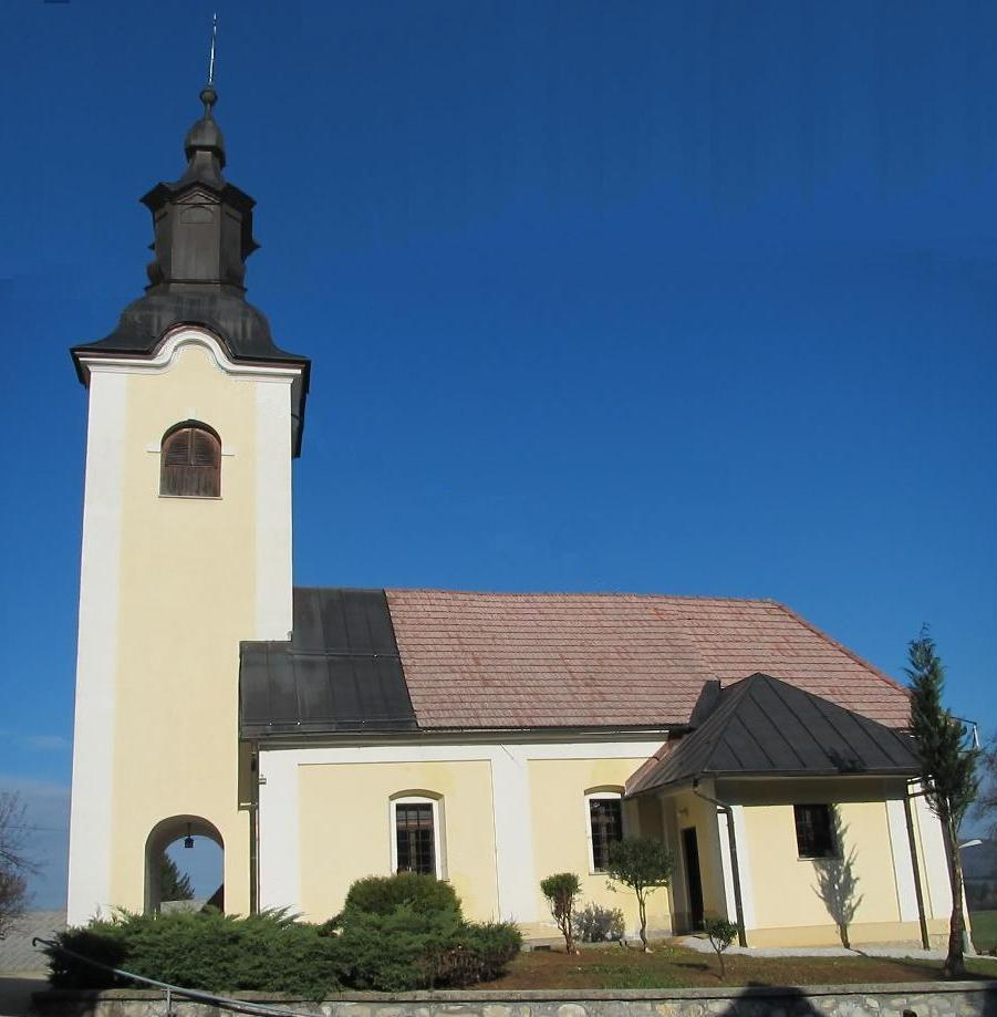 Church in Podgora, Municipality of Dobropolje, Slovenia